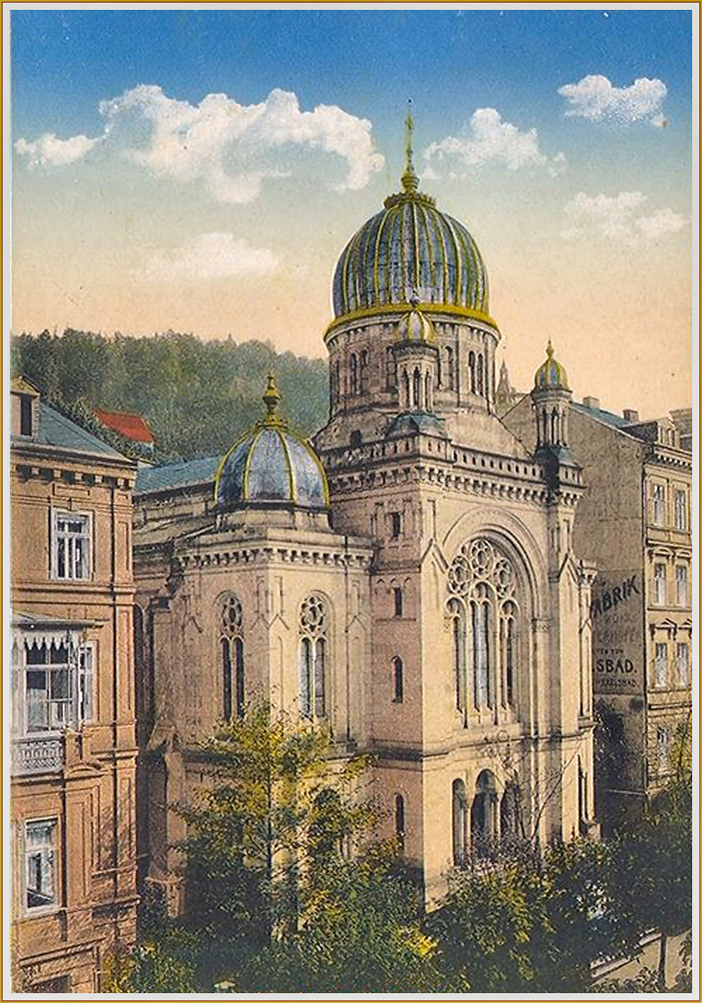 Karlsbad synagogue - old postcard